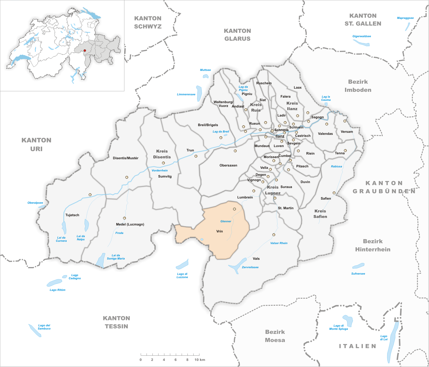 Municipality Vrin